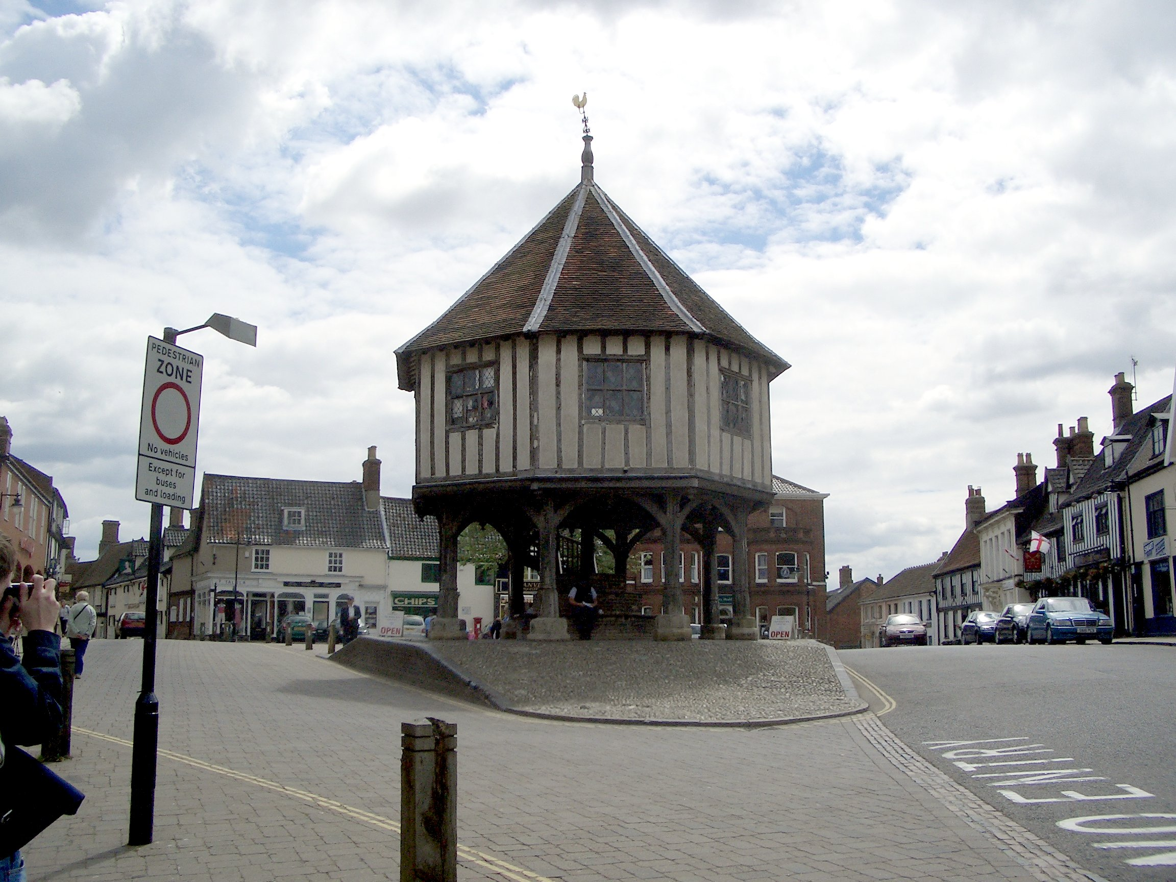 Wymondham market cross. The round building is now used as the tourist information centre.